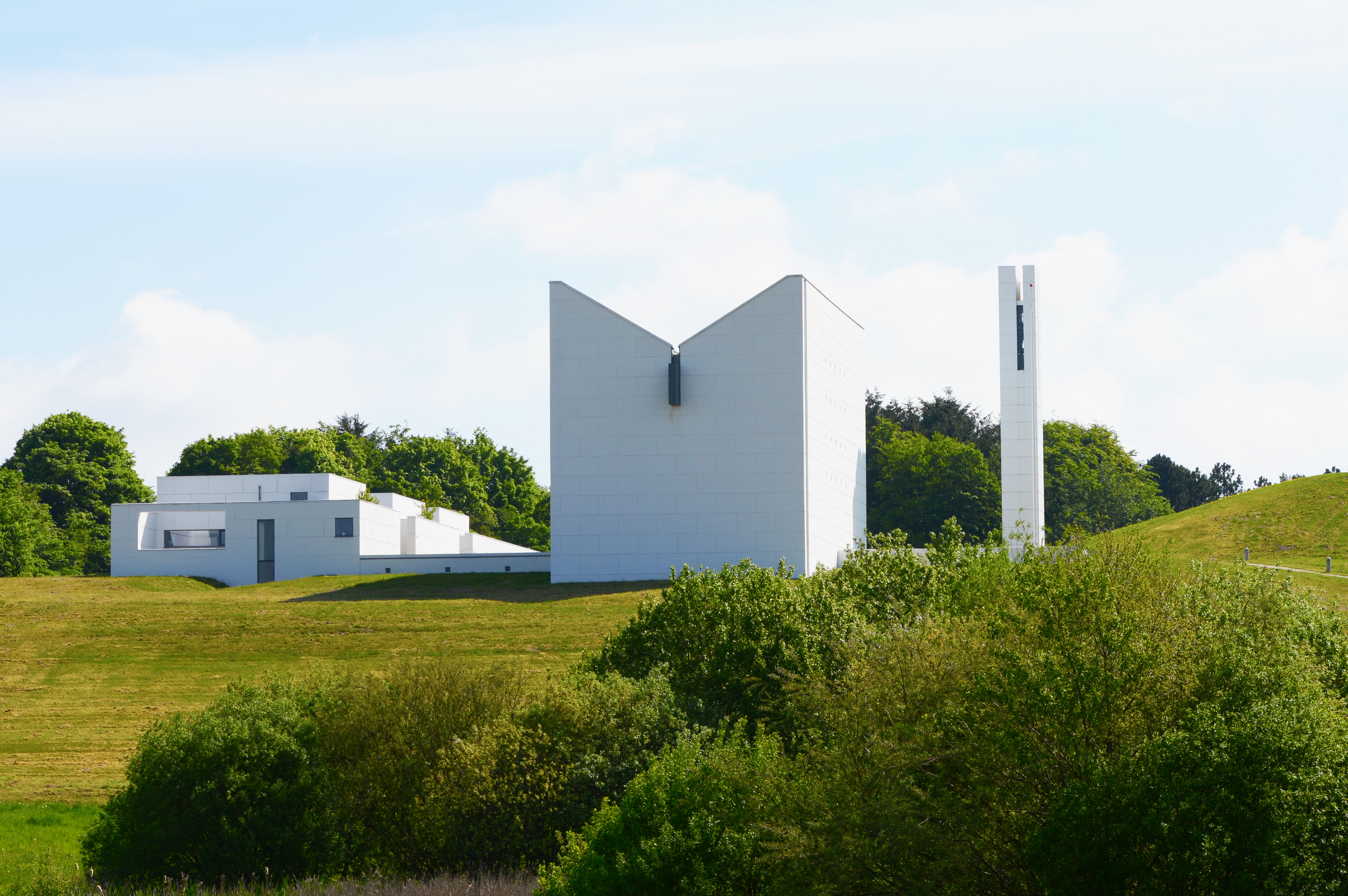 Enghøj Church, Randers, Denmark